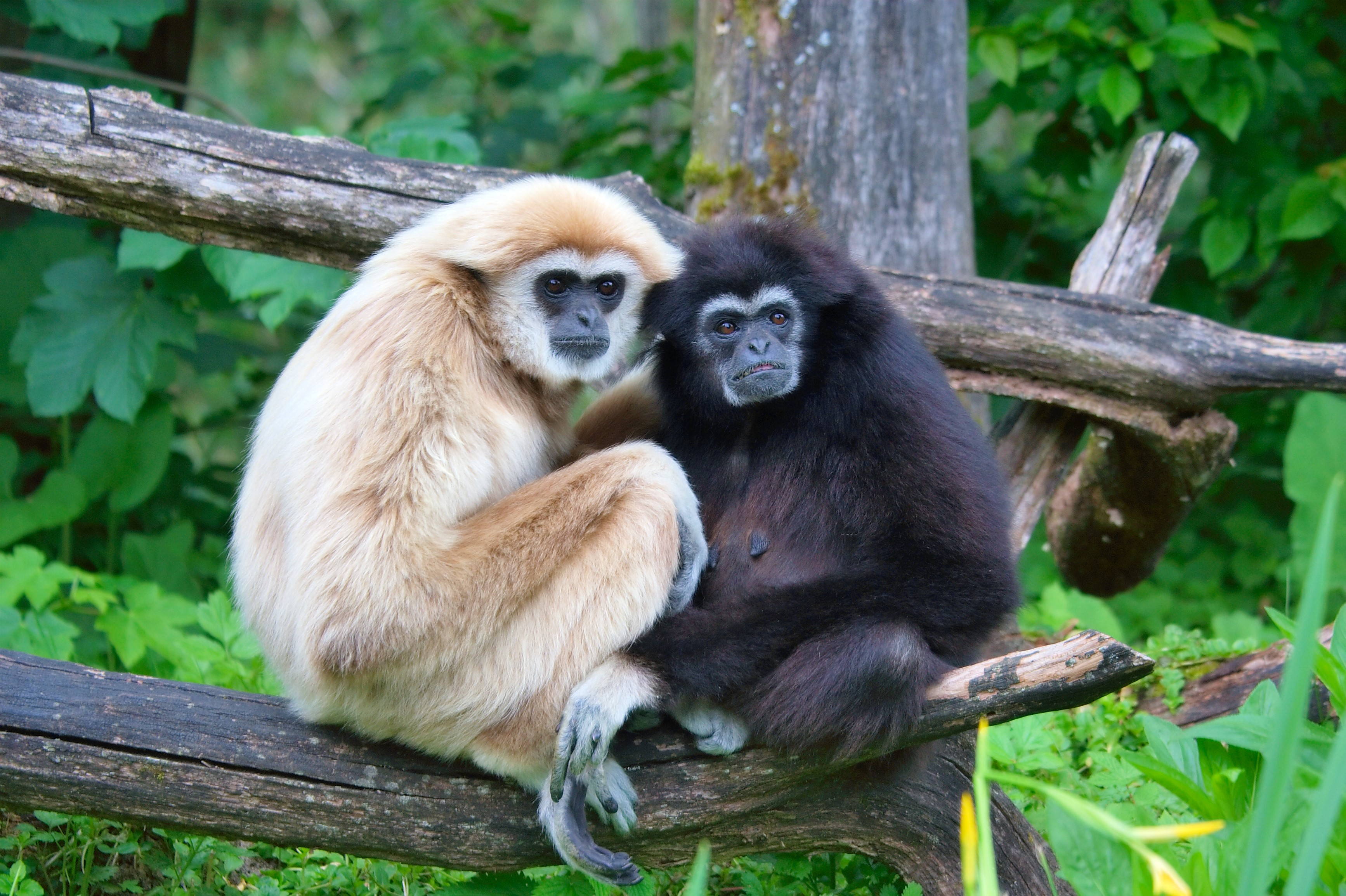 Pair of Lar Gibbons at Salzburg zoo